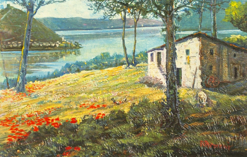 Armeno Armeni, Collesanto (olio su tavola 1911)